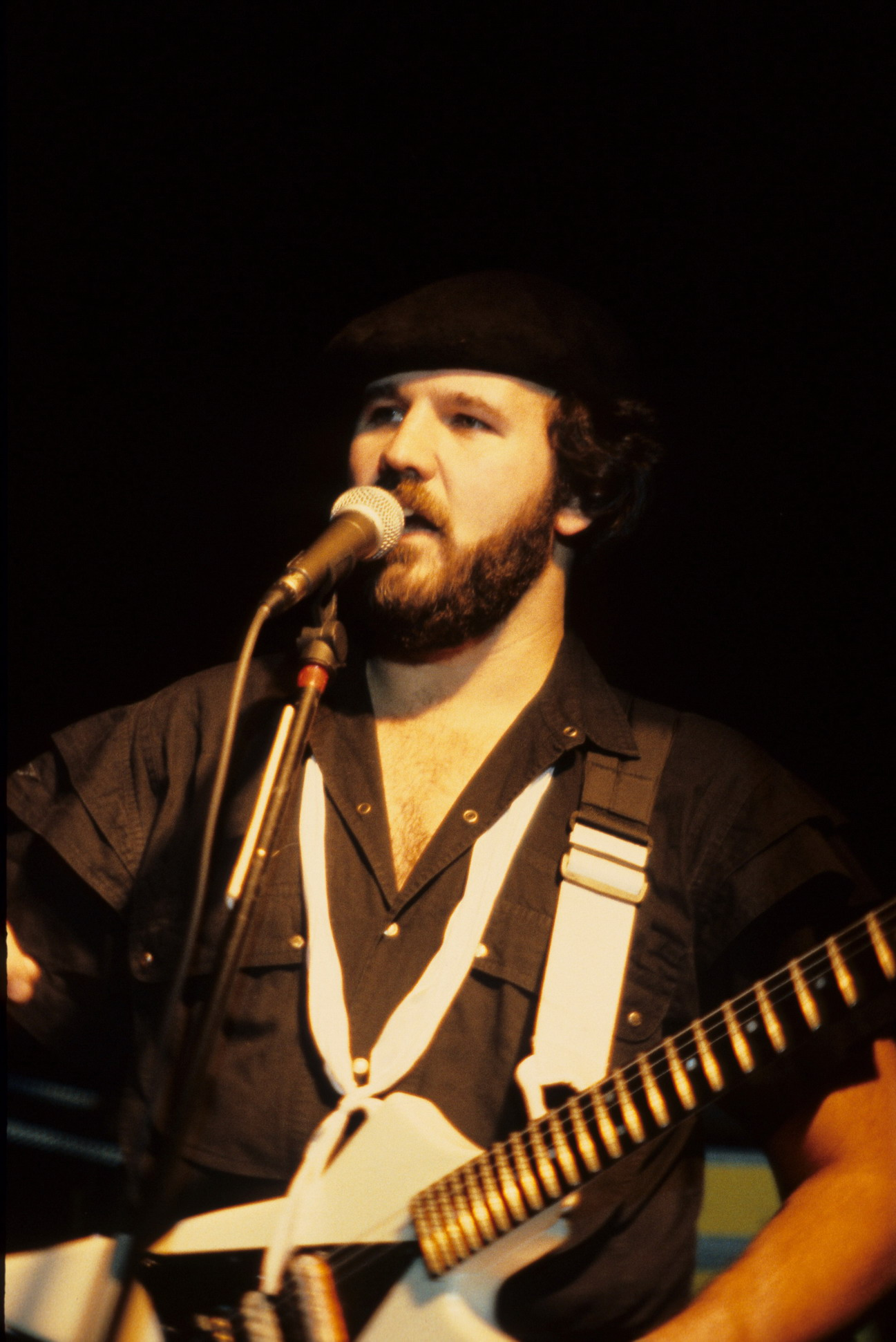 This is Petra's guitarrist and leader Bob Hartman. Photo took in Norway in 1986.